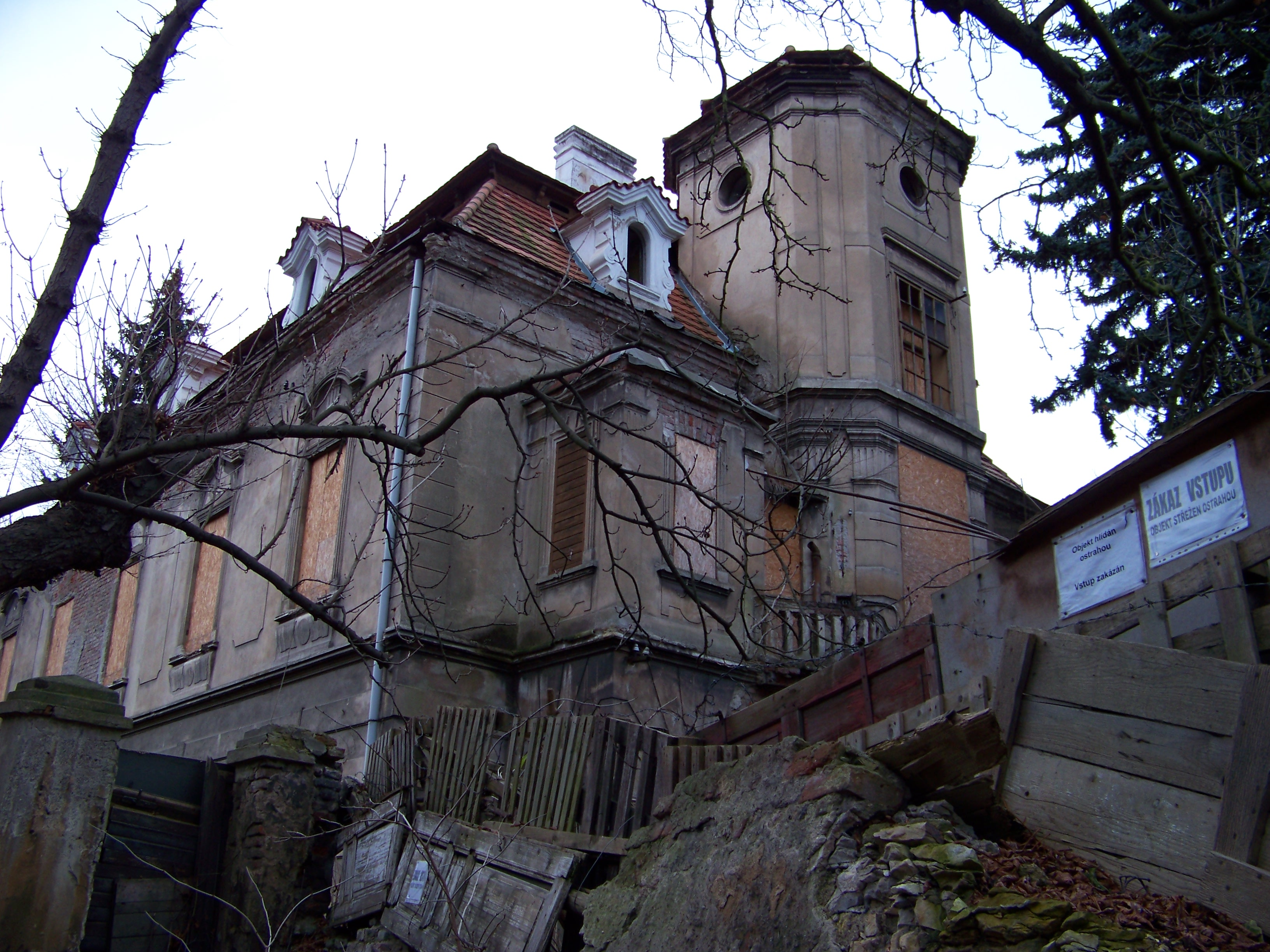 Prague-Košíře, the Czech Republic. Jinonická 1066/6, Turbová estate. - OpenStreetMap(Info)